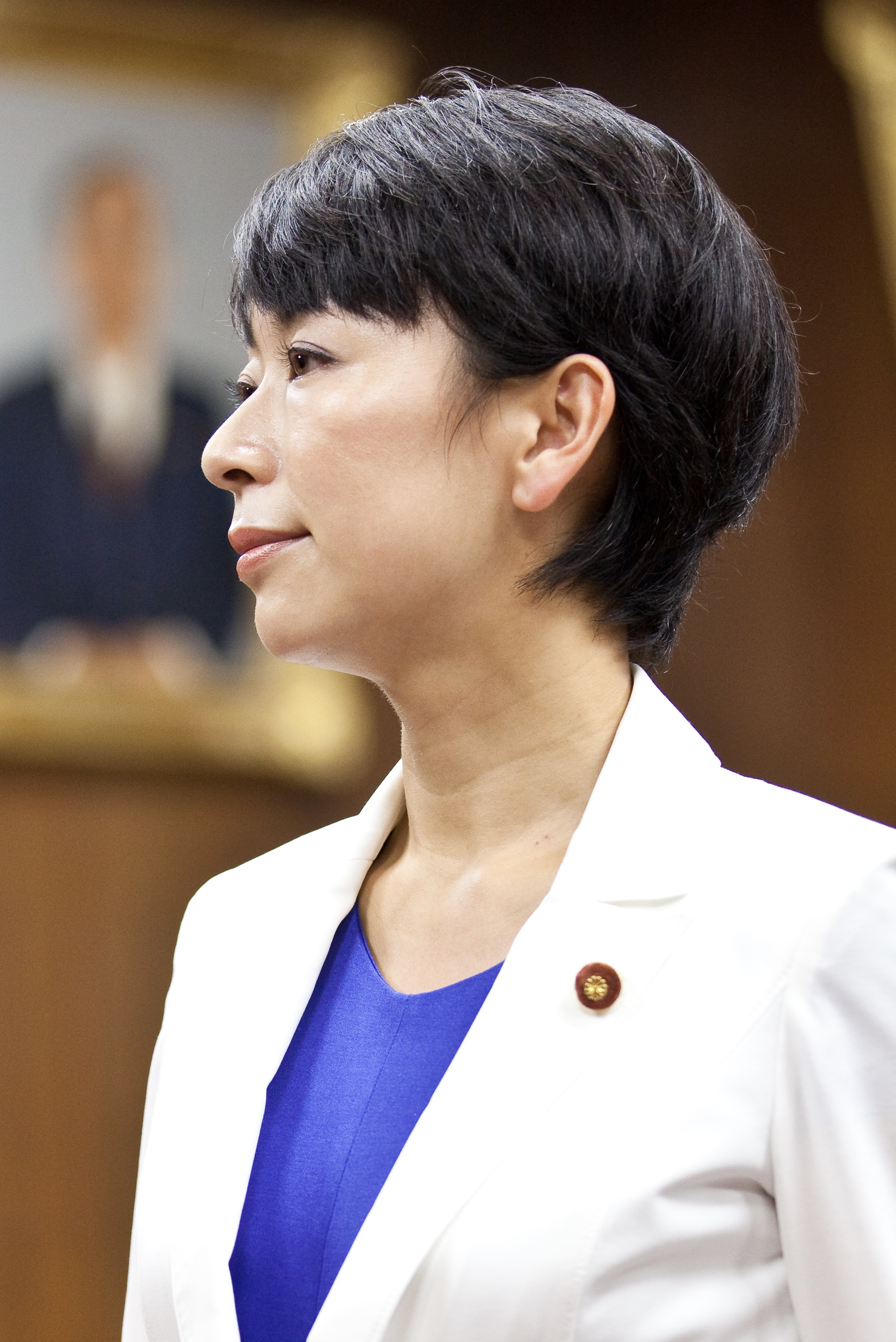 衆議院議員山尾志桜里